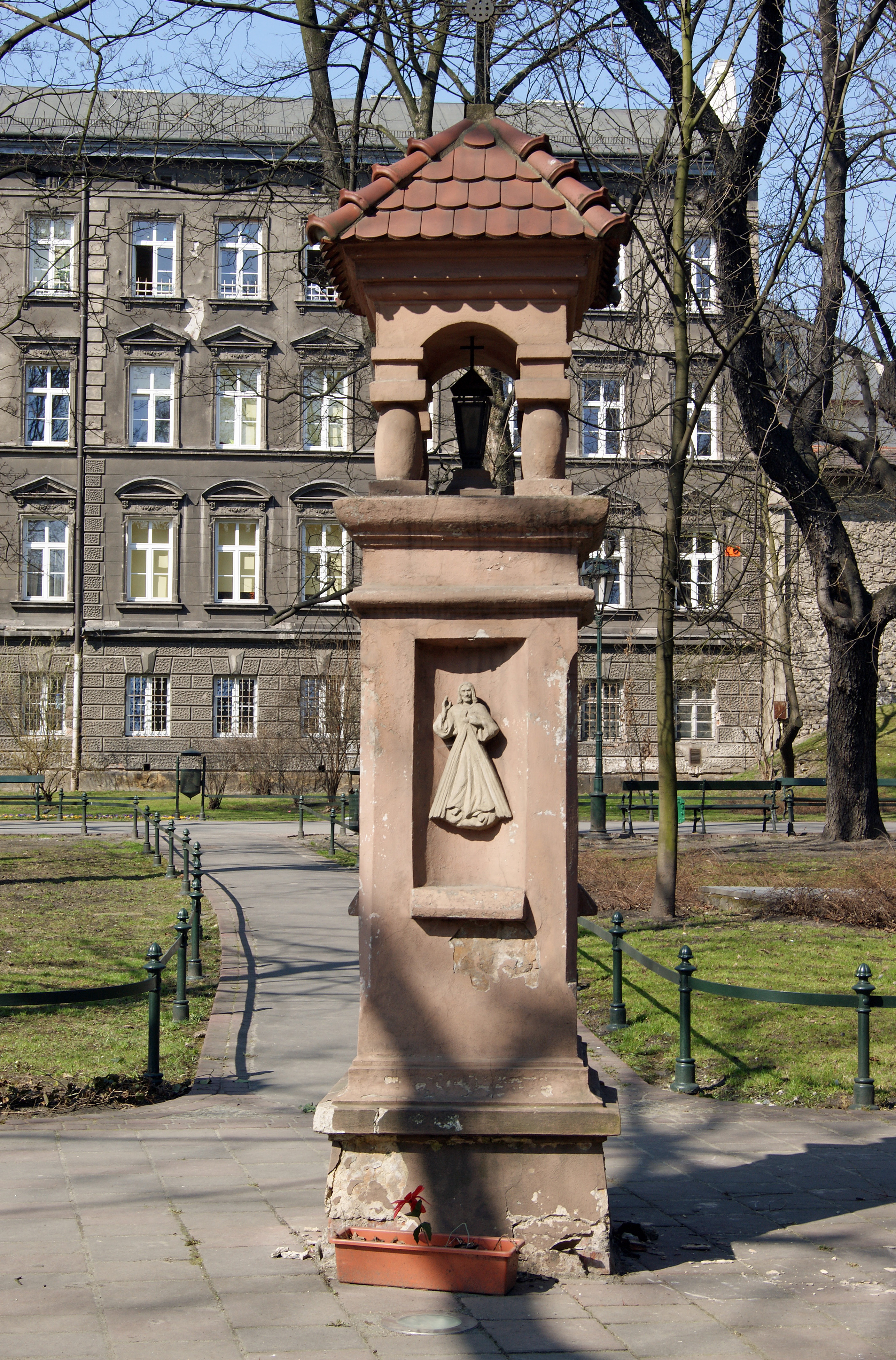 St Gertrude wayside shrine, Planty Garden, sw. Gertrudy street, Old Town, Krakow, Poland